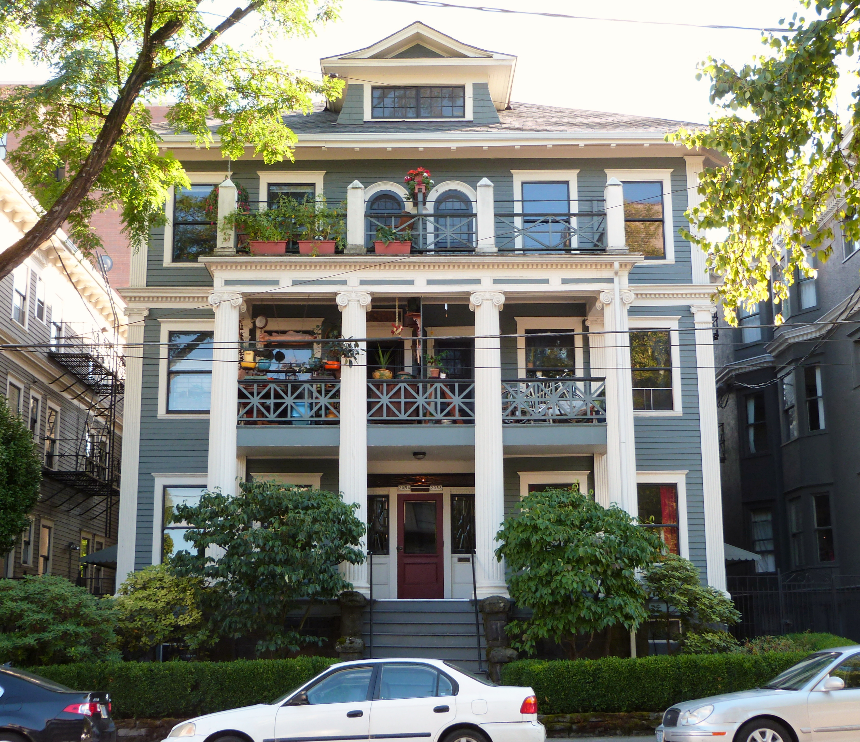 The historic Dayton Apartment Building (built 1907), located at 2056–2058 Northwest Flanders Street in Portland, Oregon, United States, is listed on the US National Register of Historic Places. It is additionally listed as a contributing resource in the National Register-listed Alphabet Historic District.